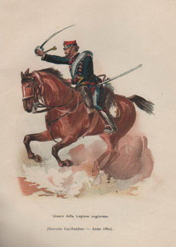 Hungarian legion in Italy